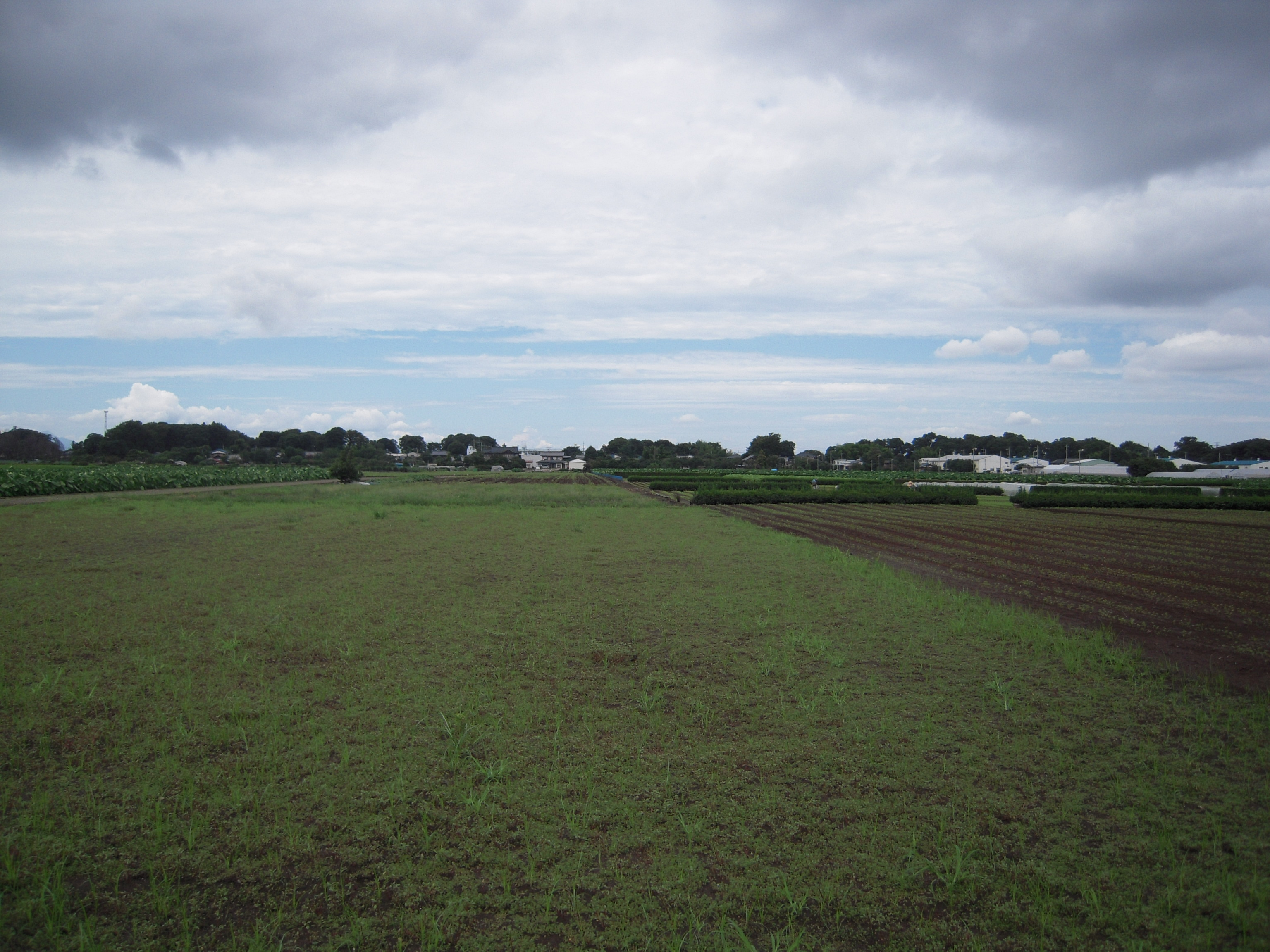 Santome Shinden, Nakatomi, Tokorozawa, Saitama, Japan